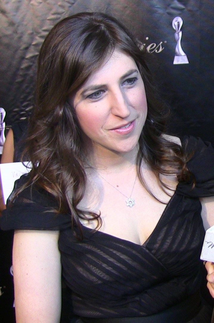 Mayim Bialik.